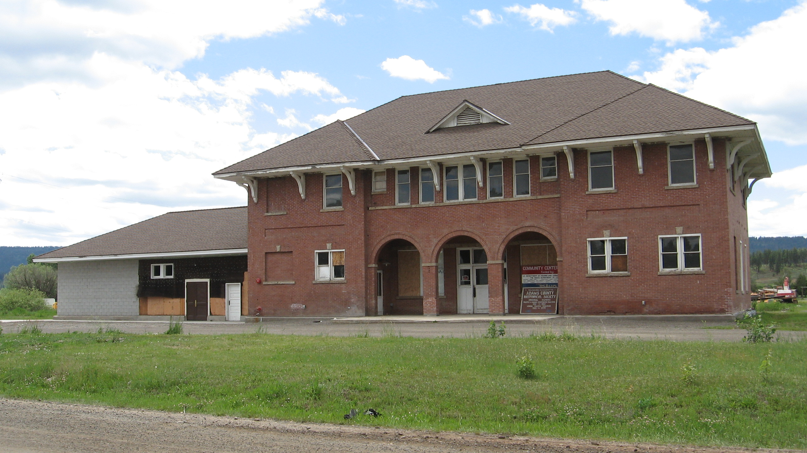 Taken June 17, 2007 by Kimberlyeron. category:Images of Idaho